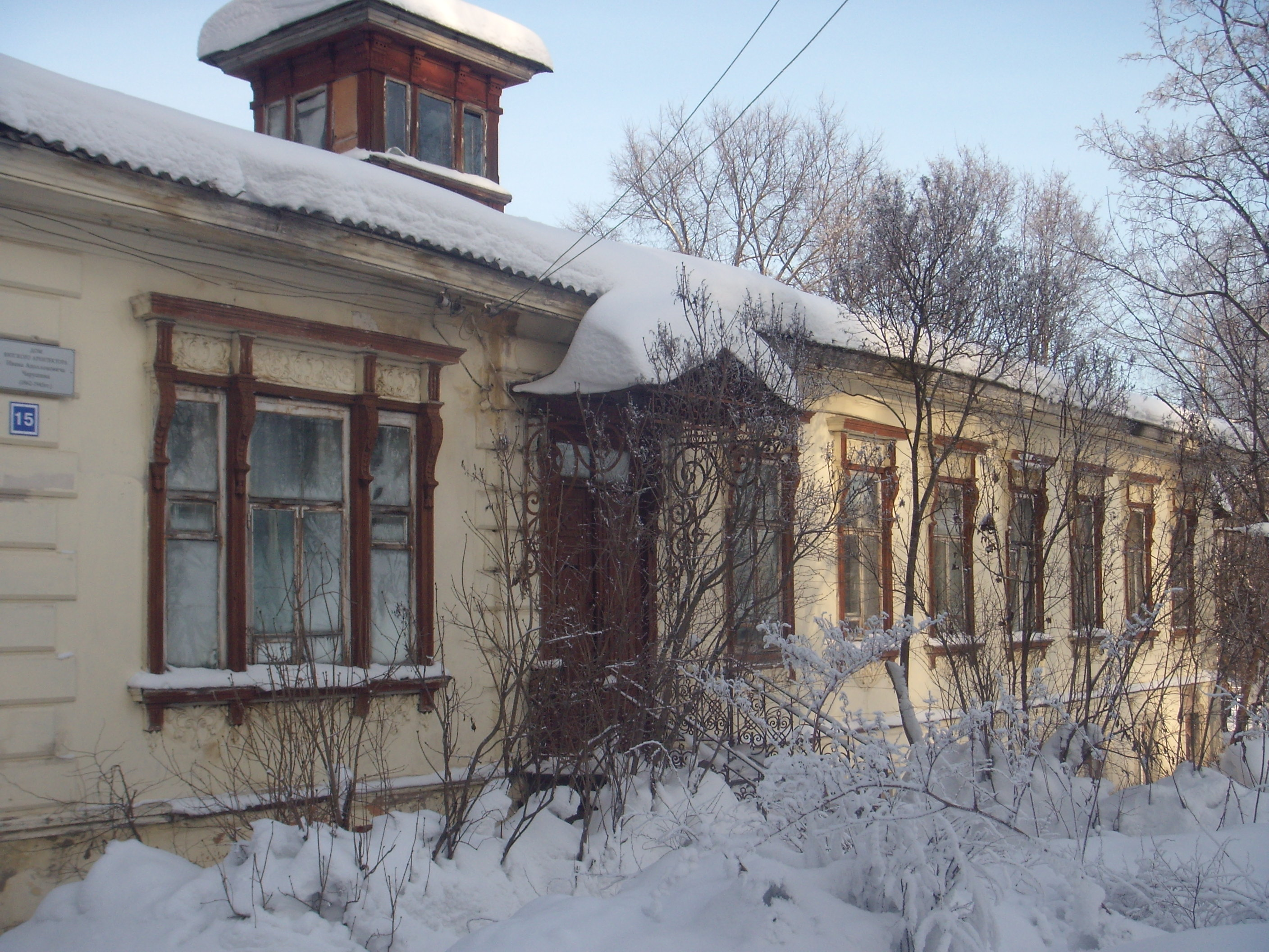 House of I. A. Charushin. Kirov, Russia.